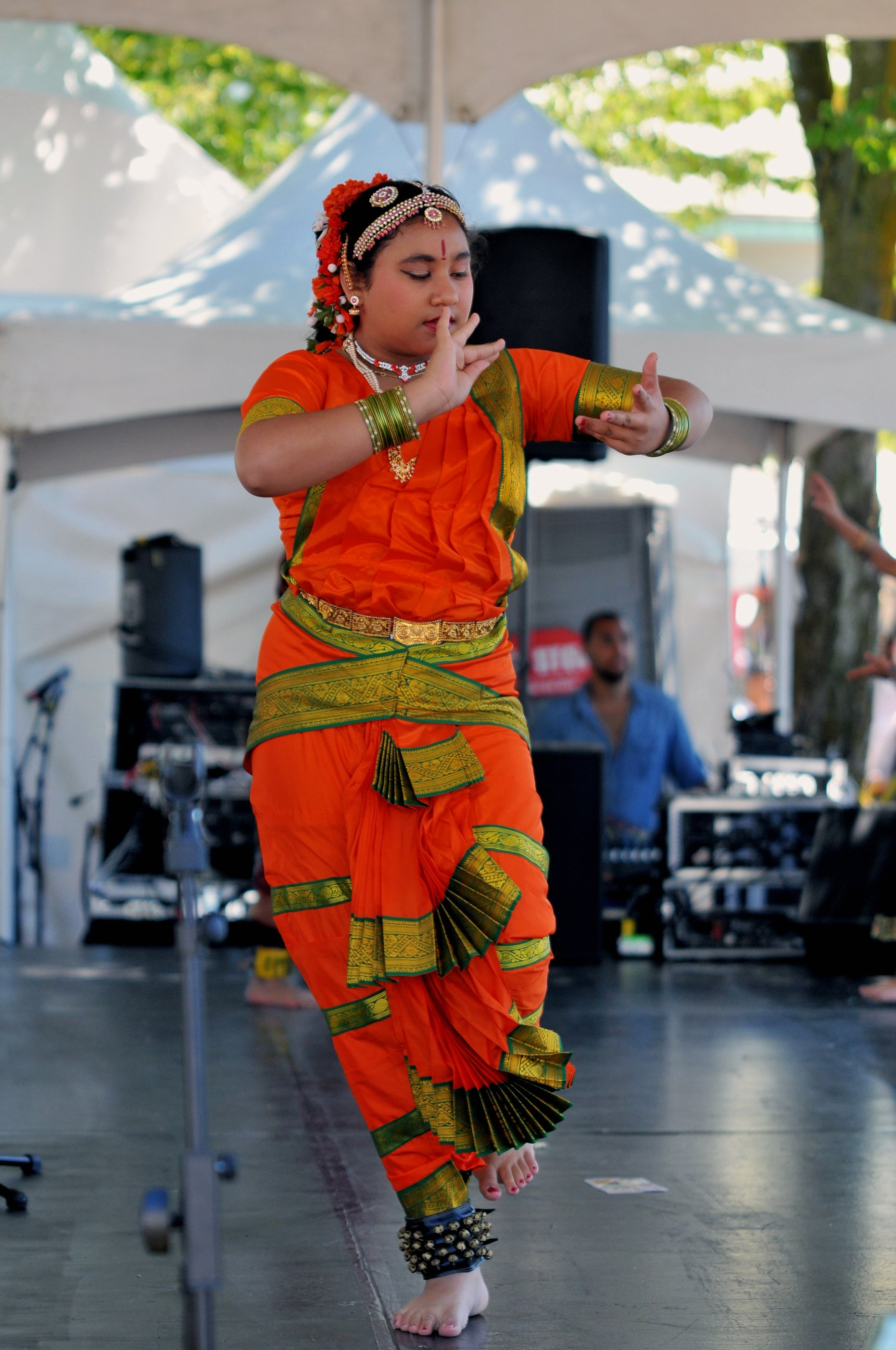 India folk dance, Bharat Natyam, performed at Surrey Fusion Festival 2010 in the United Kingdom